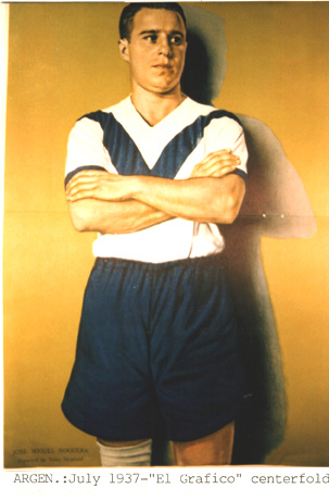 This is the centerfold of the July 1937 issue of El Grafico, an Argentine sports magazine.